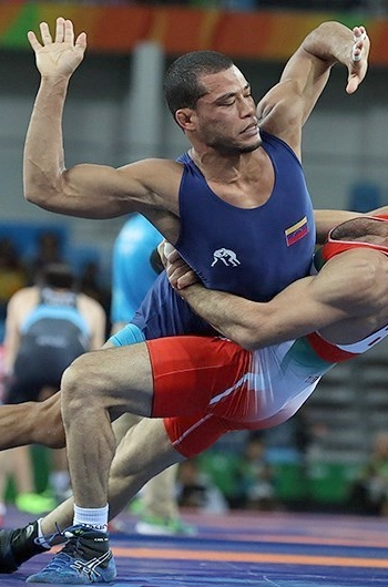 2016 Summer Olympics, Greco-Roman Wrestling 66 kg - Shmagi Bolkvadze v Omid Norouzi